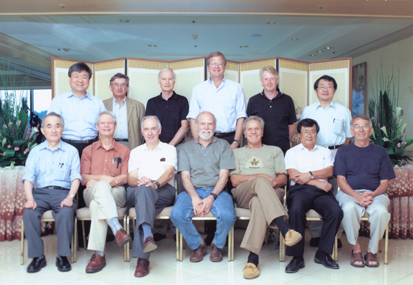 The Members of the International Technology Recommendation Panel posed for the photograph on June, 2005. Akira Masaike, George Kalmus, Volker Soergel, Barry Barish, Giorgio Bellettini, Hirotaka Sugawara, Paul Grannis, Gyung-Su Lee, Jean-Eudes Augustin, David Plane, Jonathan Bagger, Norbert Holtkamp, and Katsunobu Oide attended the meeting of the International Technology Recommendation Panel.